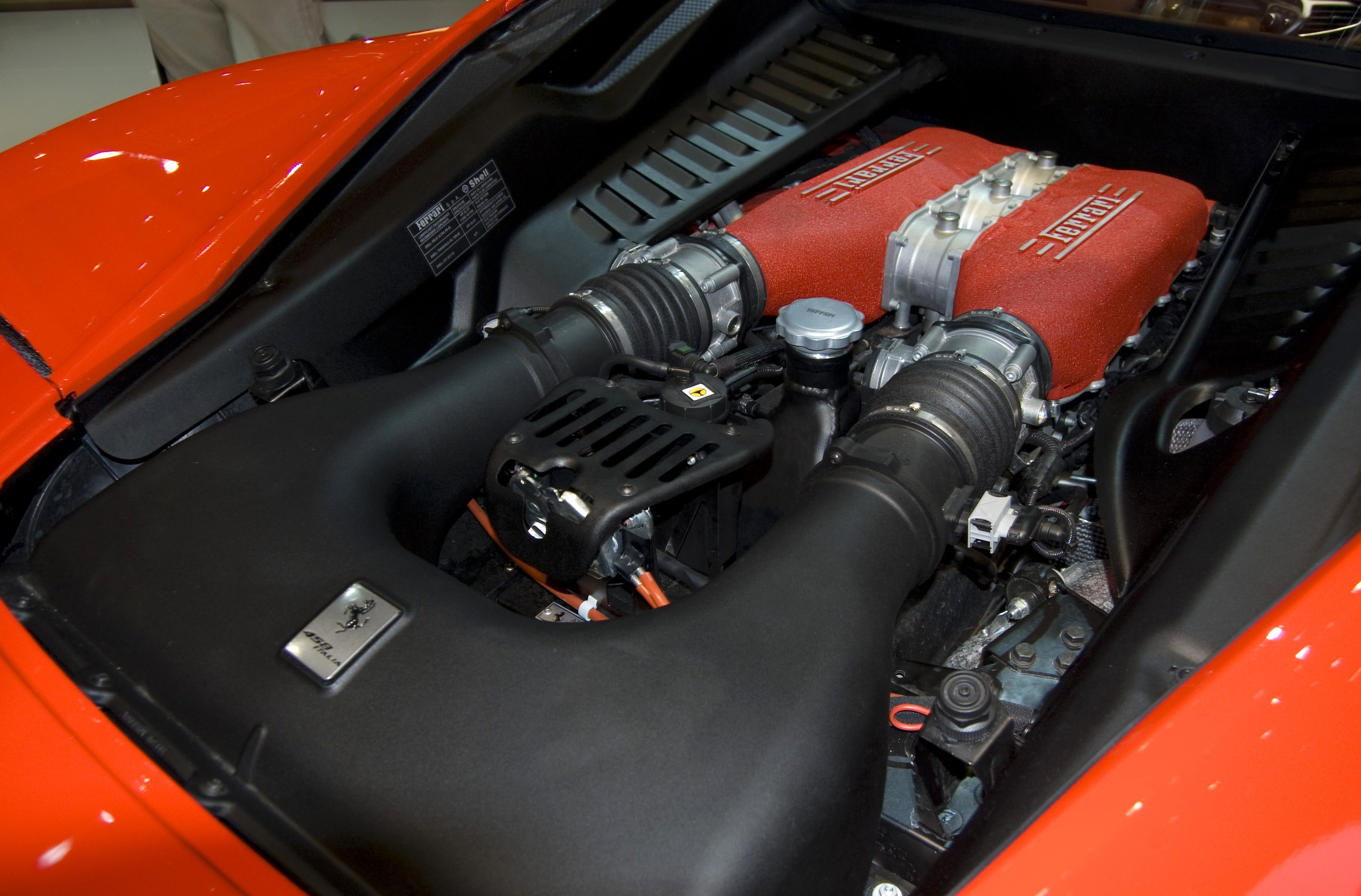 Ferrari 458 Italia